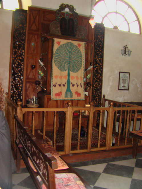 The Synagogue in Chania. Credit: Courtesy of Arie Darzi to memorialize the Jewish community in Greece.